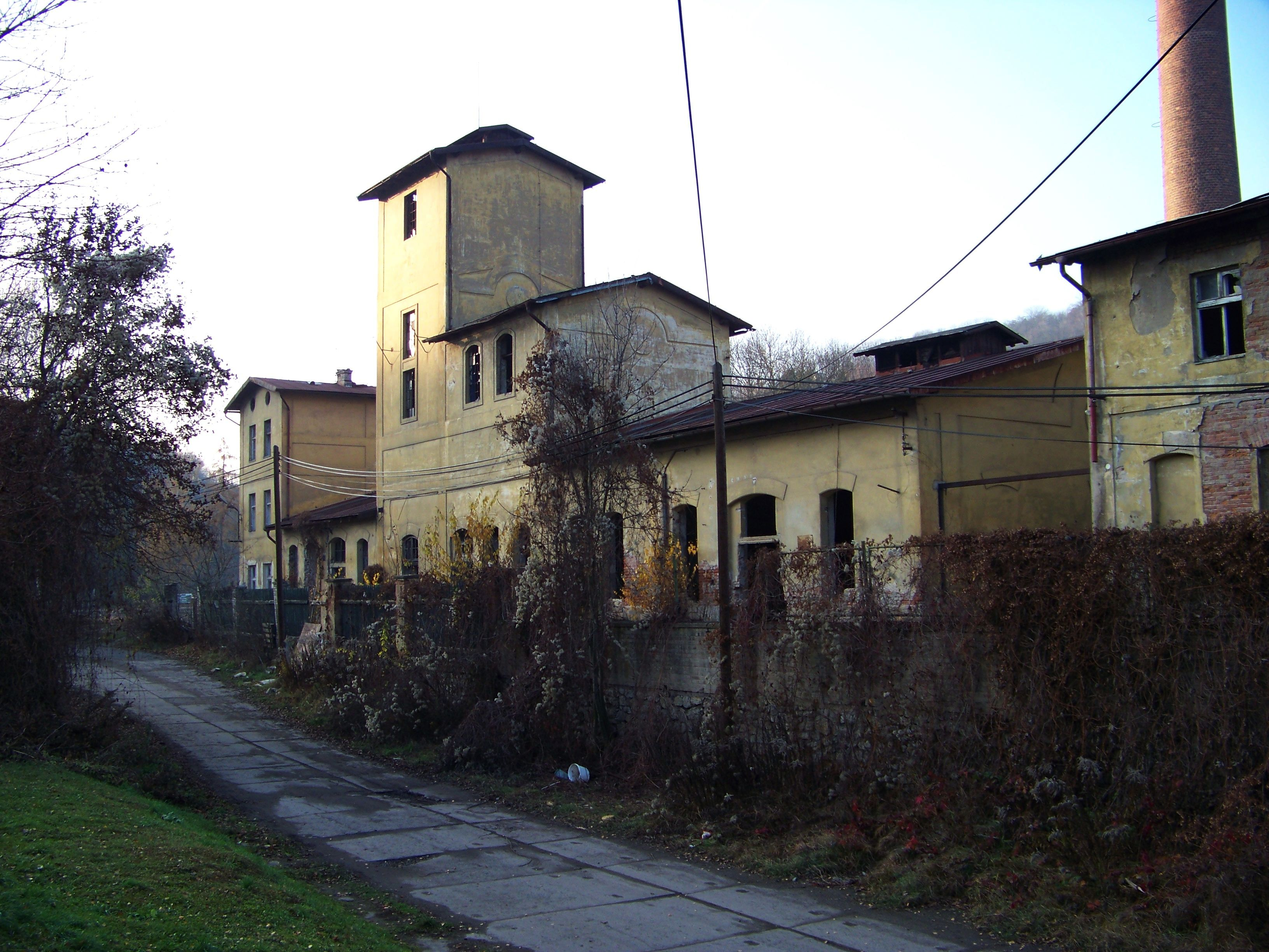 Prague-Hlubočepy, the Czech Republic. Hlubočepská 94/72, a factory. - OpenStreetMap(Info)